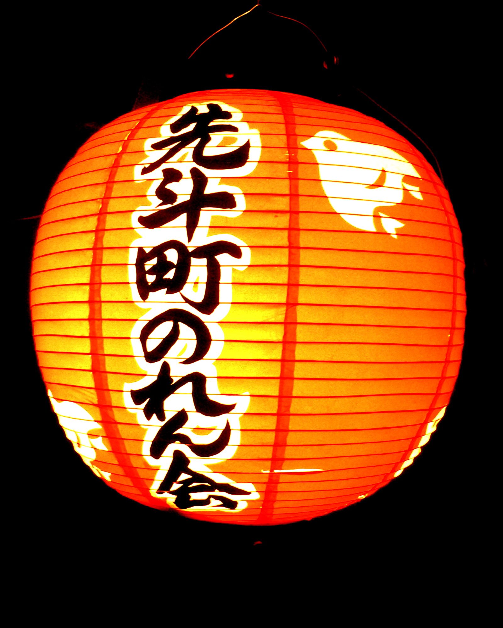 Pontochō centres around one long, narrow, cobbled alley running from Shijo-dōri to Sanjo-dōri, one block west of the Kamogawa in Kyoto.Today the area, lit by traditional lanterns at night, contains a mix of very expensive restaurants - featuring outdoor riverside dining on wooden patios throughout the summer - geisha houses and tea houses, brothels, bars, and cheap eateries.It has a unique atmosphere - elegance and traditional beauty really do balance with seediness and the slightest hint of danger.Pontochō / 先斗町